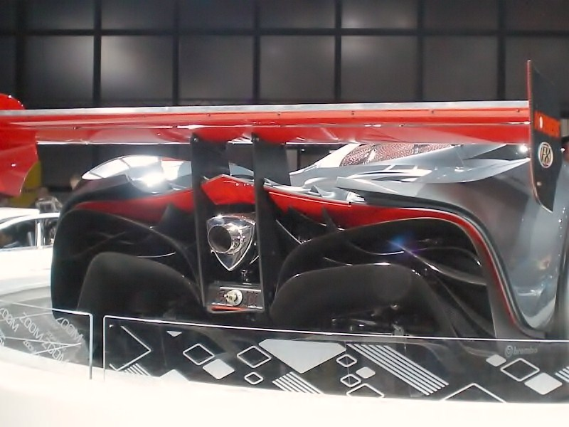 Rear view of the Mazda Furai, spoiler and exhaust in detail